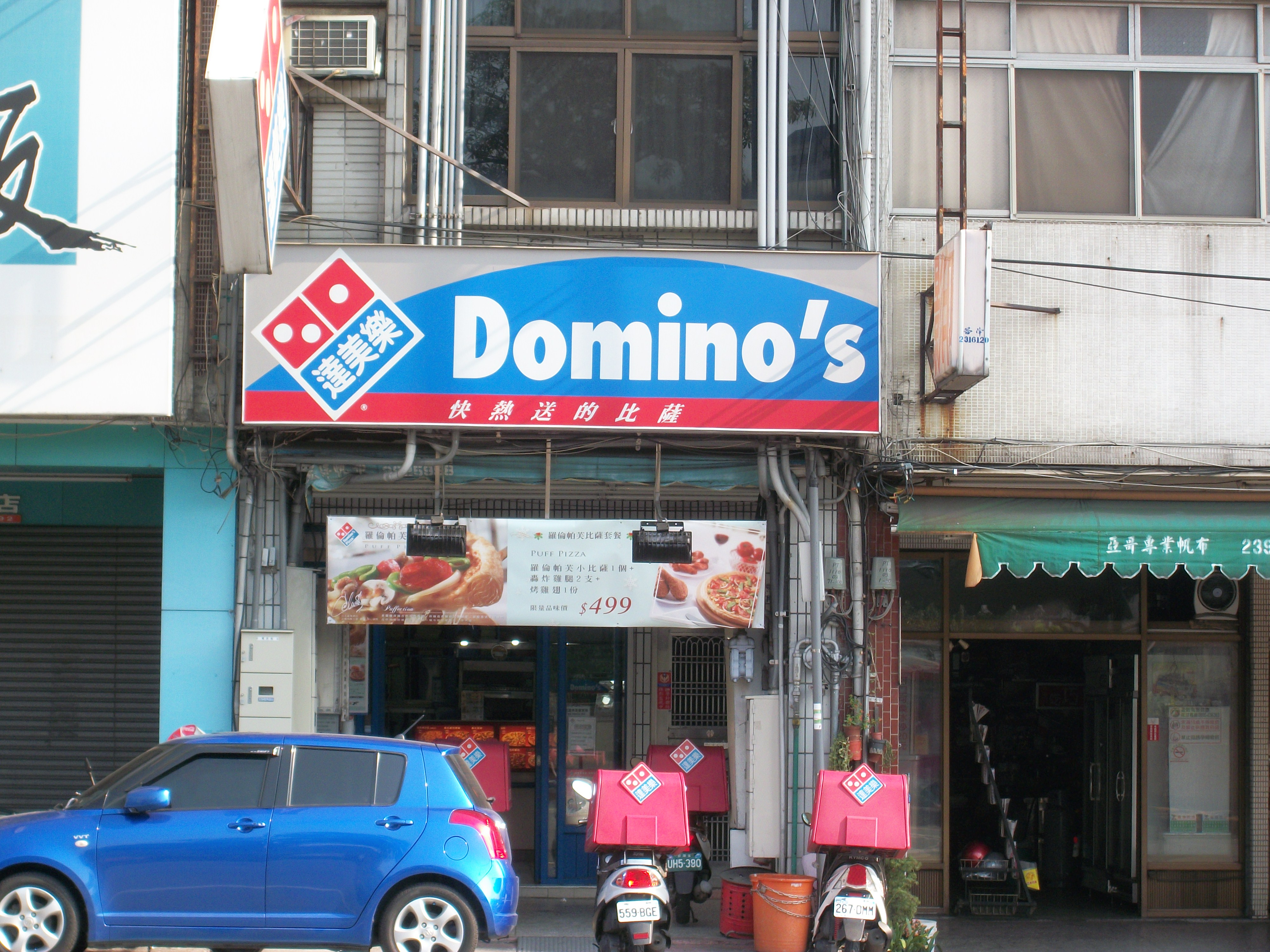 Domino's Pizza Beitun Store in Taichung